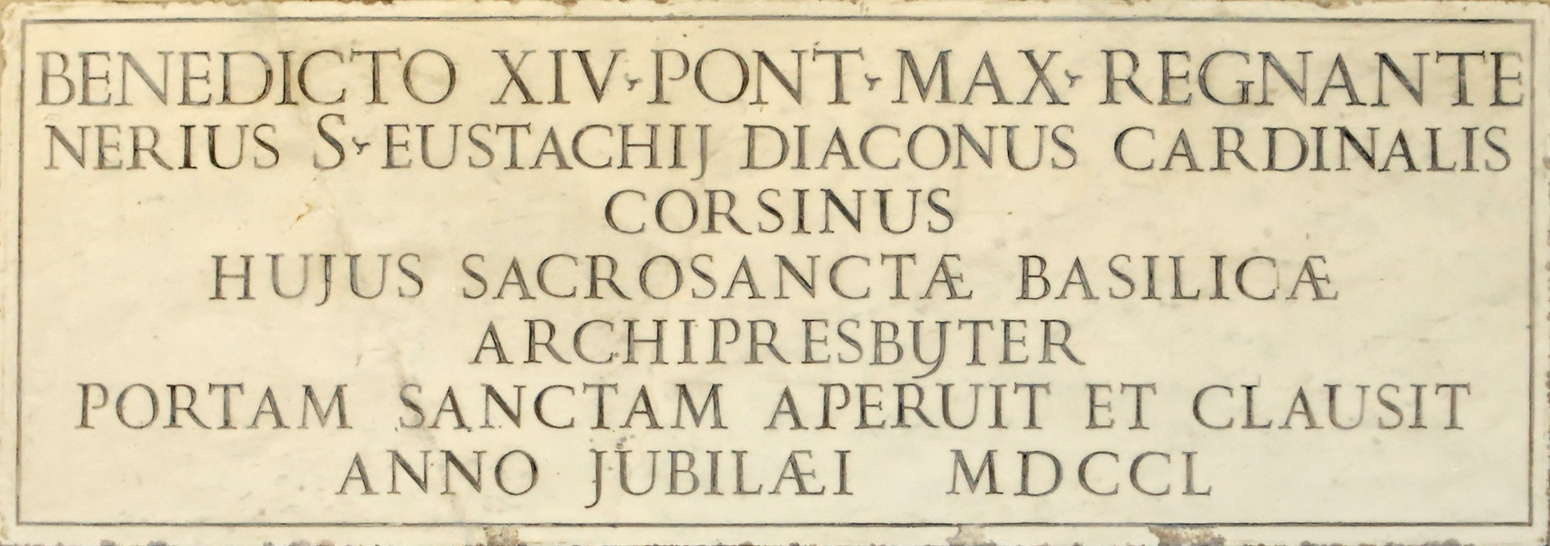 Inscription commemorating the opening and closing of the Holy Door by Pope Benedict XIV for the Jubilee of 1750. Cloister of the Basilica of St. John Lateran (Rome).